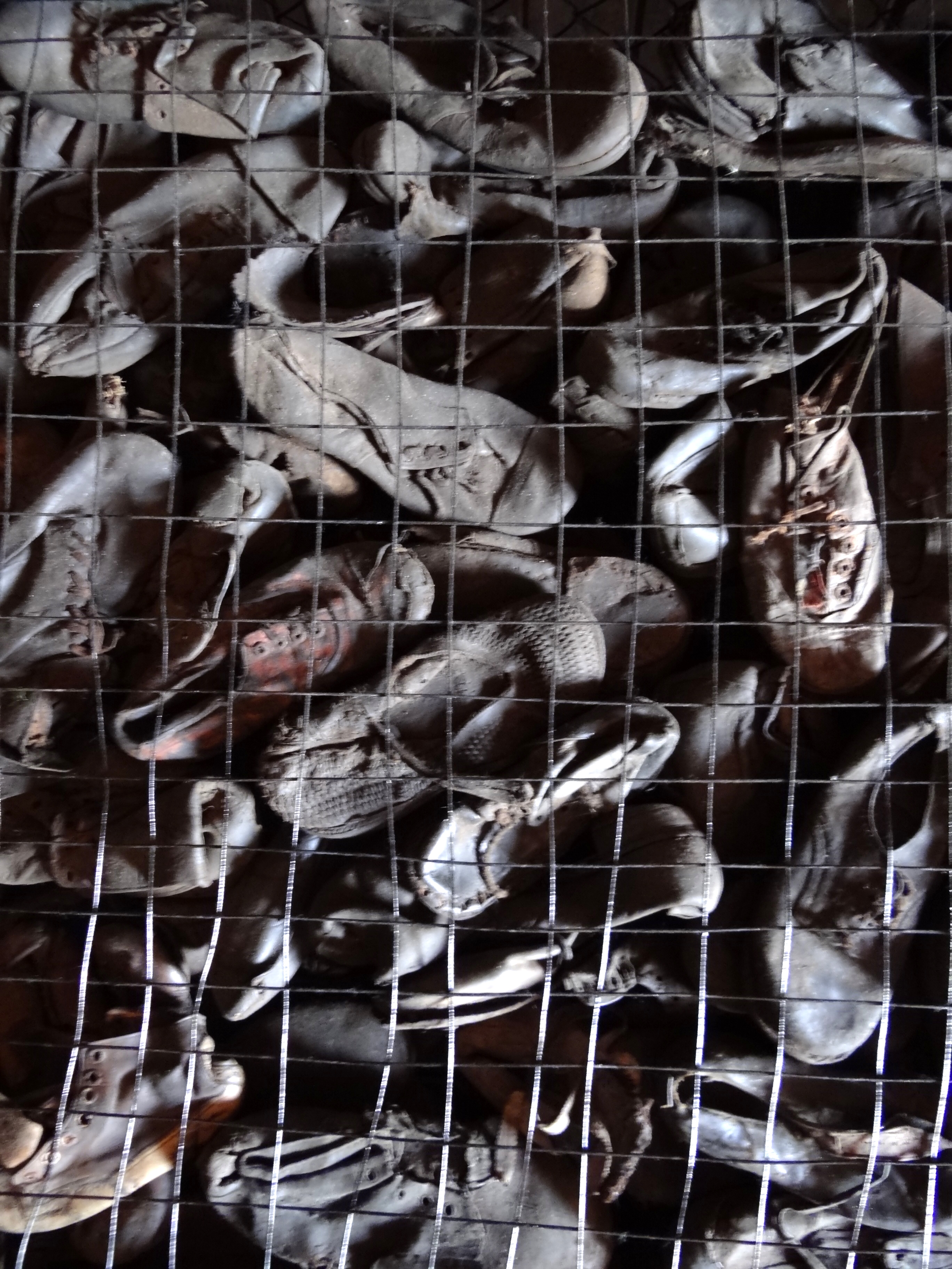 Shoes of Victims from Operation Reinhard Death Camps - Collected at Majdanek concentration camp - Lublin - Poland